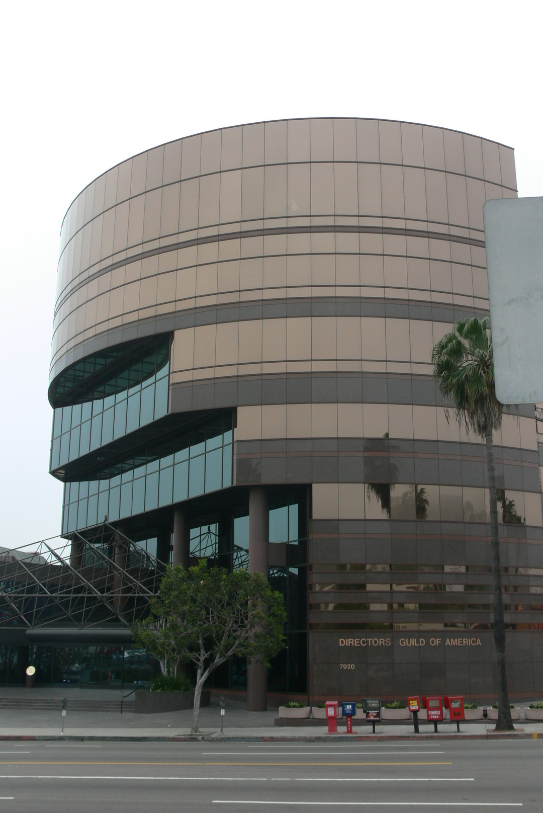 Headquarters of the Directors Guild of America, 7920 W. Sunset Boulevard, Hollywood, CA Photograph by Mike Dillon, May 10, 2006.